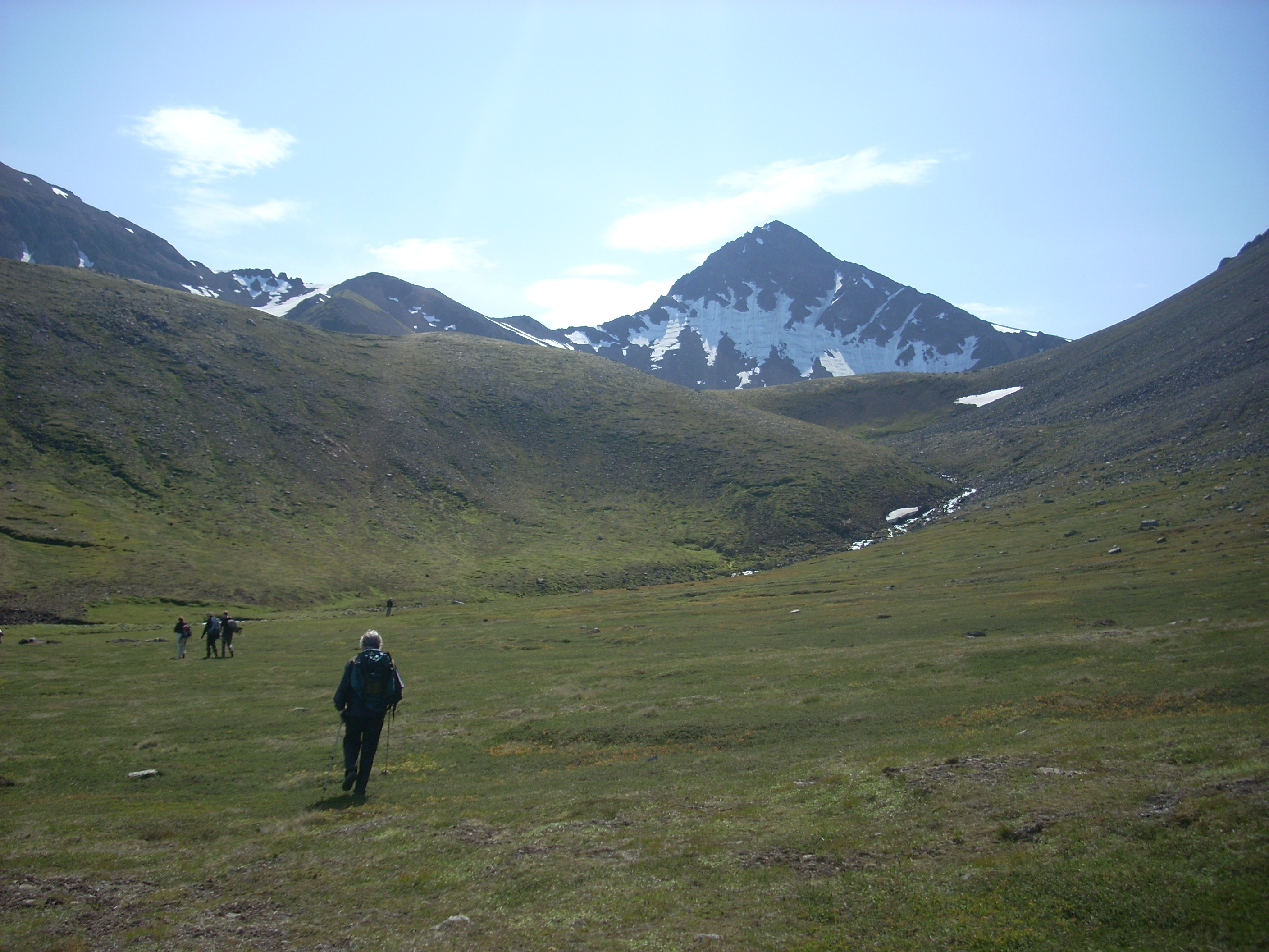 Hiking in North-Iceland, Fjörður region